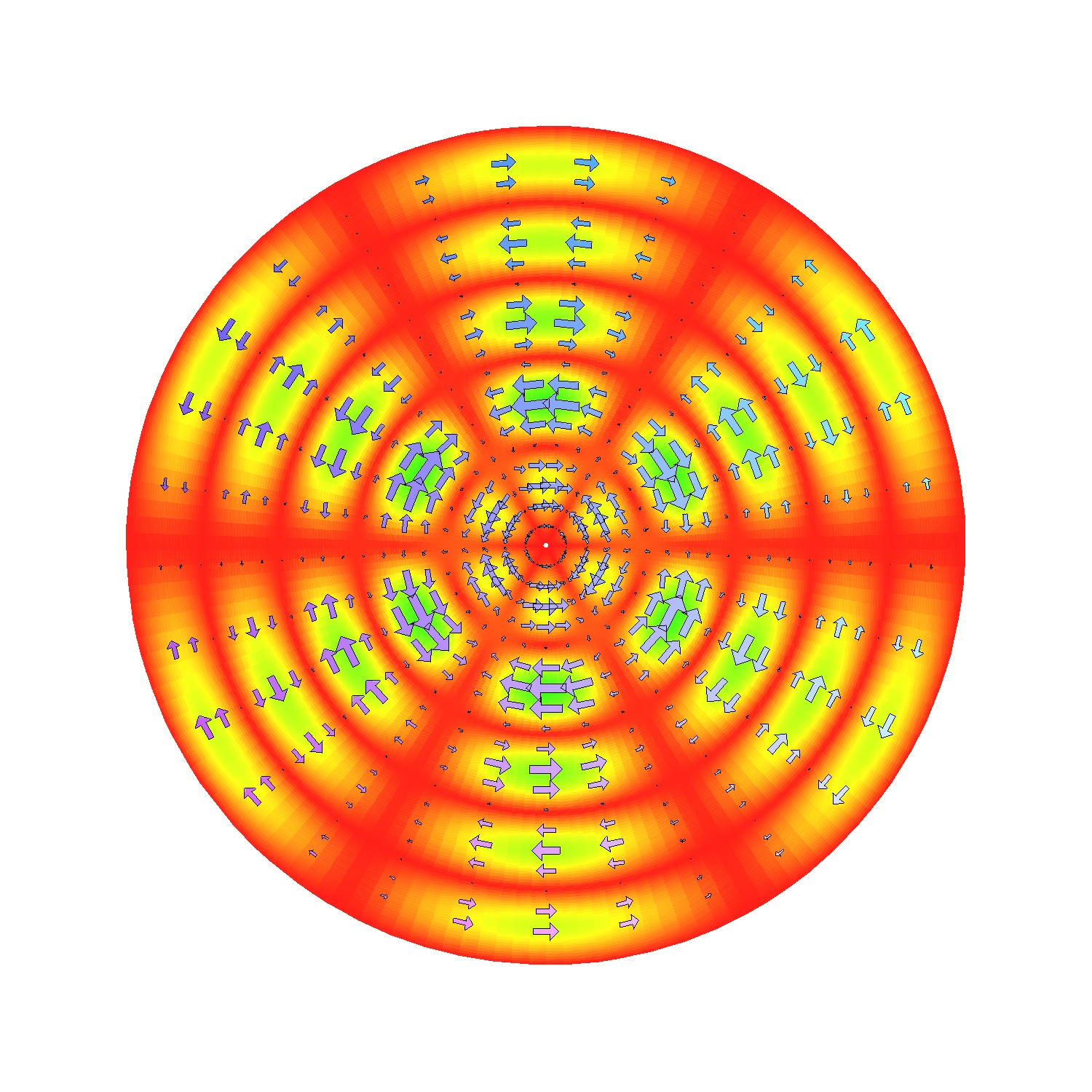 Plot of E and H fields on the TEnl mode defined by n and l.